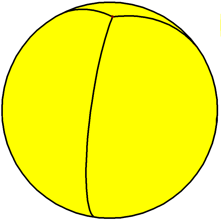 Spherical polyhedron